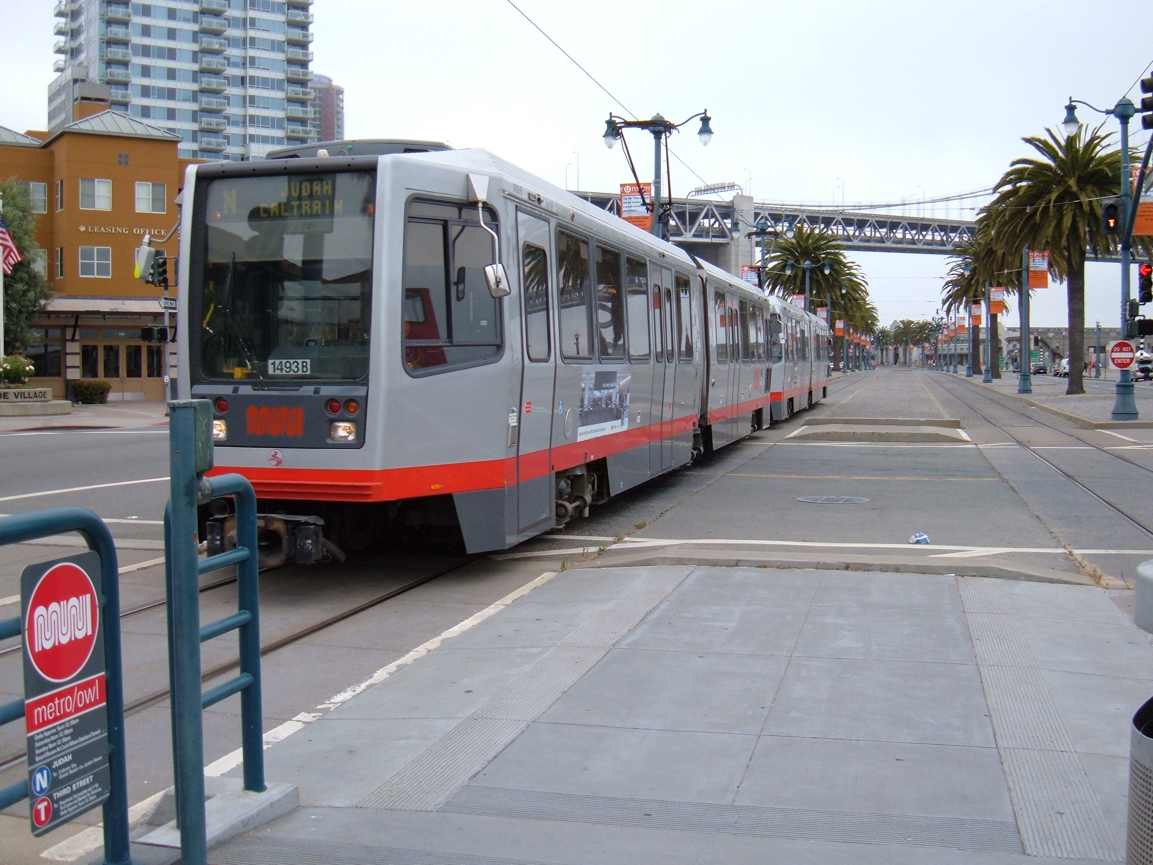 The N Judah approaching the Embarcadero & Brannan stop in San Francisco.